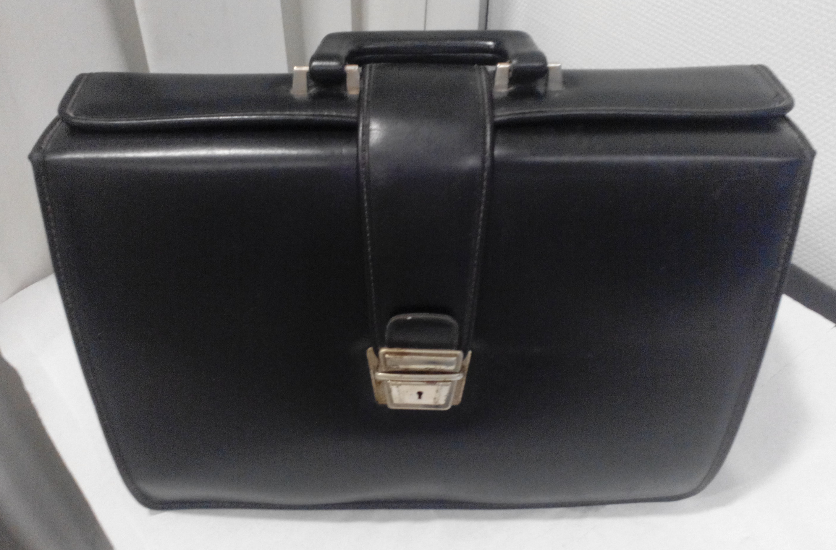 Medical bags.